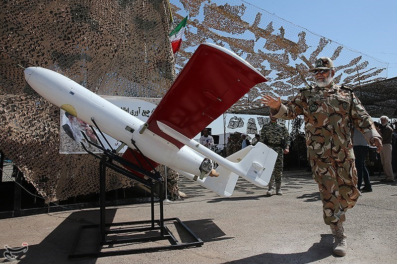 NEJAZA Commander Brig. Gen. Ahmad Reza Pourdastan inspects a Mohajer-2 UAV at an Iranian arms expo.